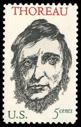 1967 U.S. postage stamp honoring Henry David Thoreau.